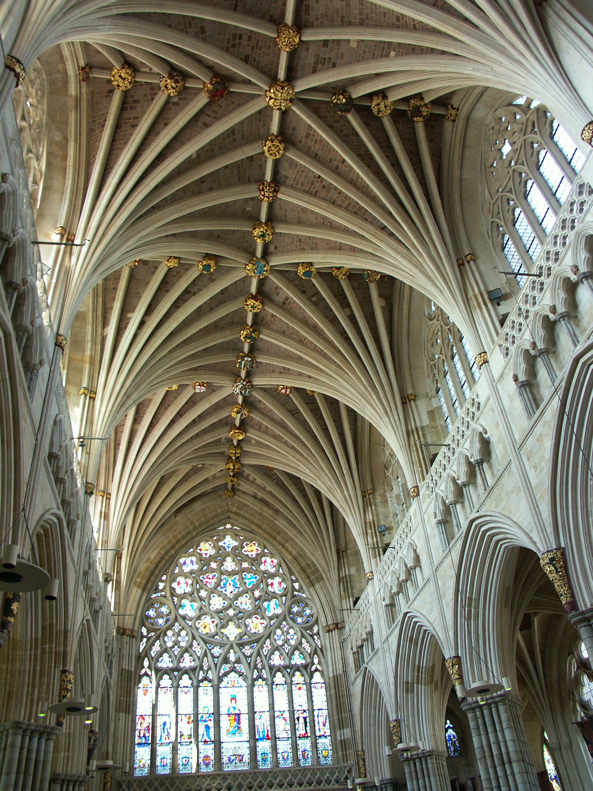 Vaulted ceiling with bosses in Exeter Cathedral, Devon